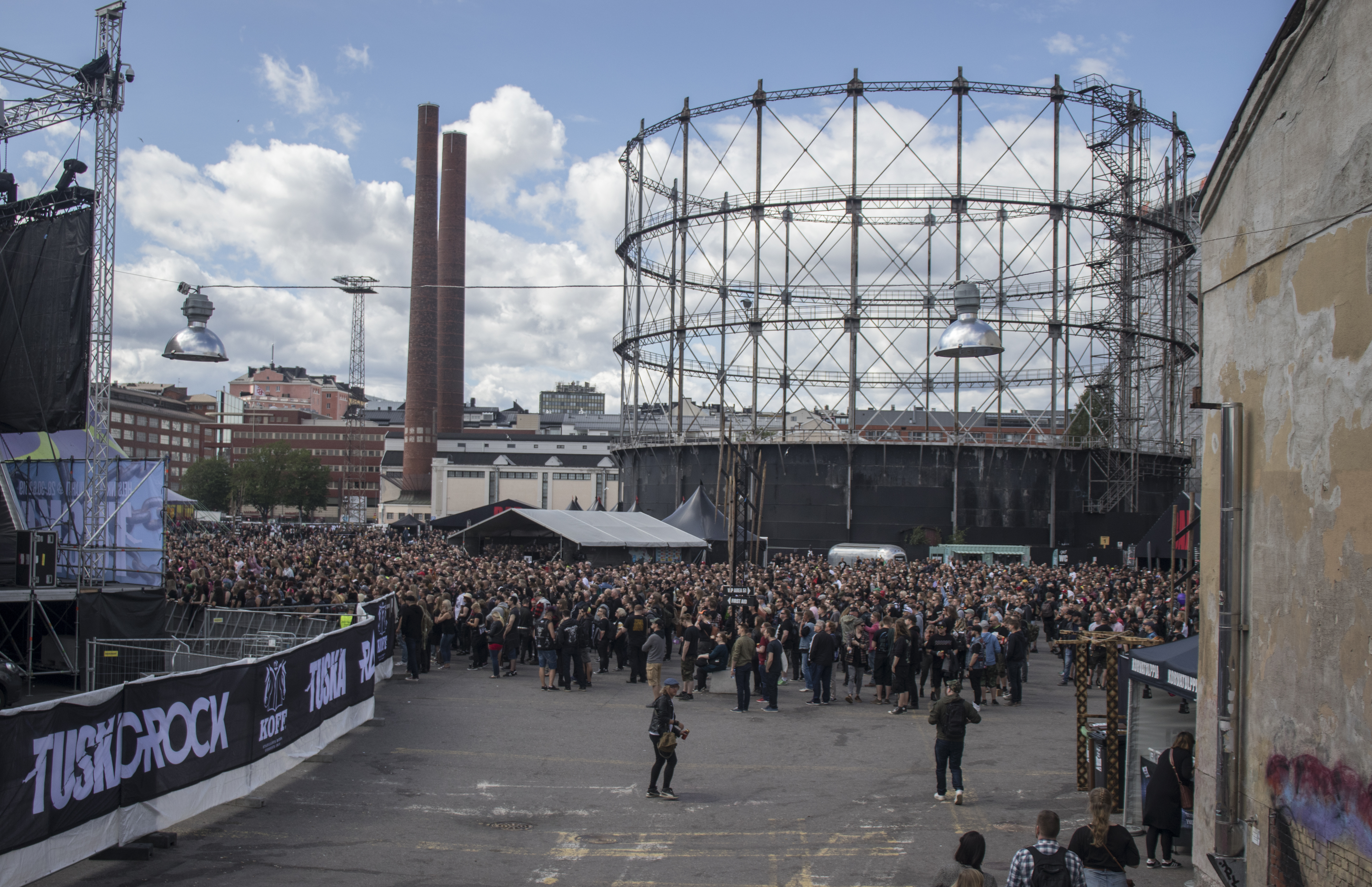 Crowd at Tuska Open Air Metal Festival 2019 in Helsinki, Finland (Kalasatama)